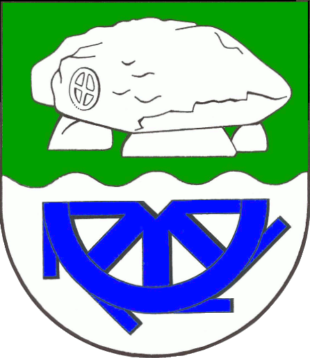 Coat of arms of the municipality Bunsoh in Schleswig-Holstein, Germany.